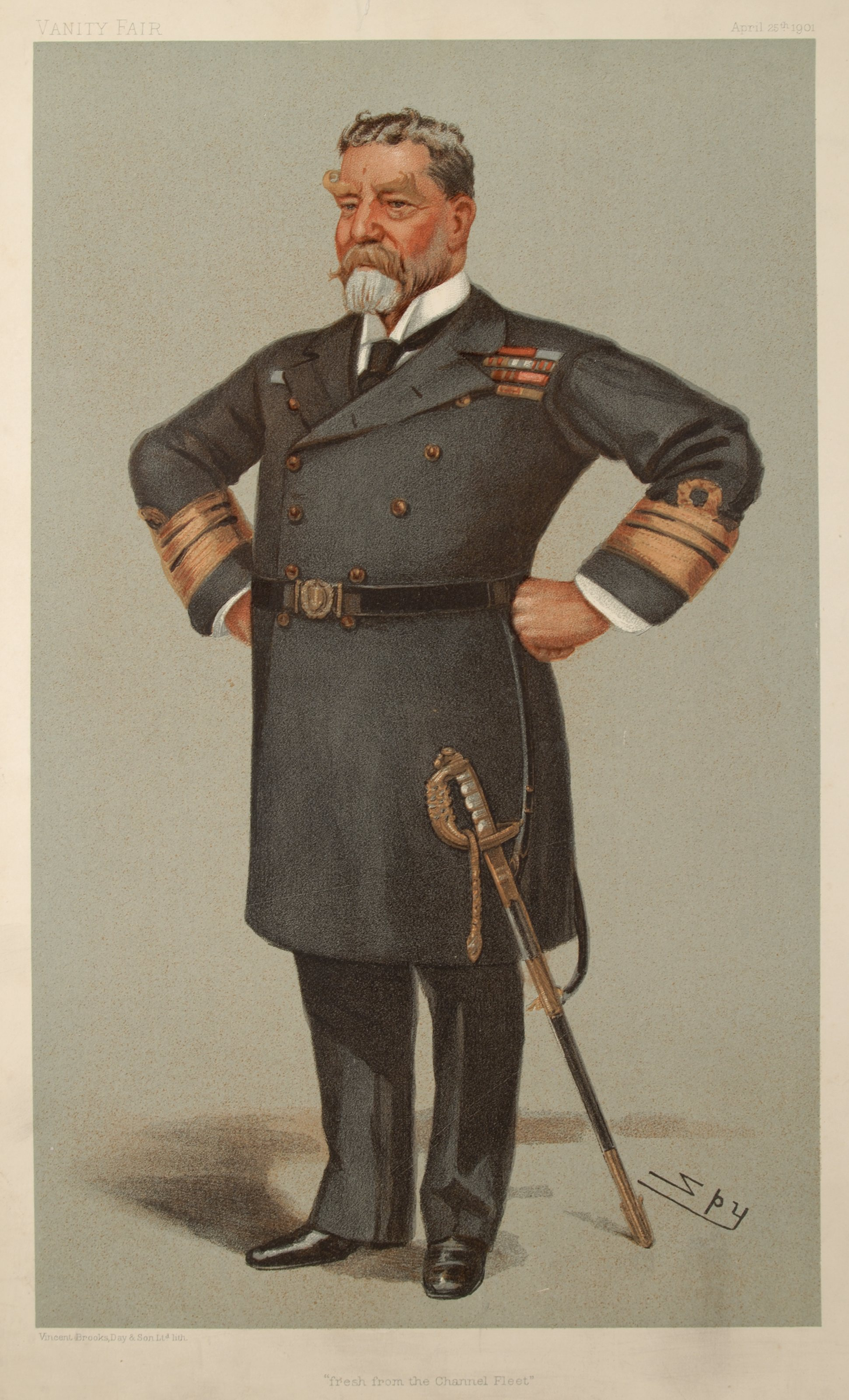 Men of the Day No. 807: Caricature of Vice-Admiral Sir Harry Holdsworth Rawson, K.C.B. (1843-1910). Caption read "fresh from the Channel Fleet".